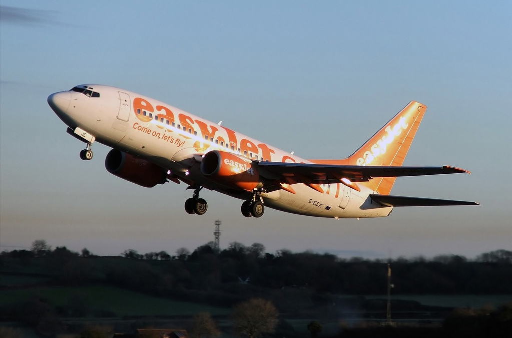 easyJet Boeing 737-700 G-EZJC departing Bristol Airport. Photo copyright Tom Collins